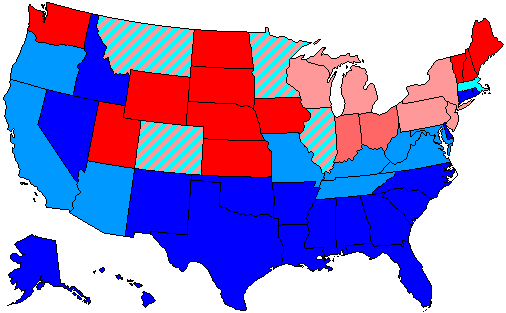 Summary of party control of U.S. house seats in the 88th United States Congress following election. Stripes indicate a tie between two or more parties. Legend: 80.1-100% Democratic seat majority 60.1-80% Democratic seat majority 60% or less Democratic seat plurality 60% or less Republican seat plurality 60.1-80% Republican seat majority 80.1-100% Republican seat majority